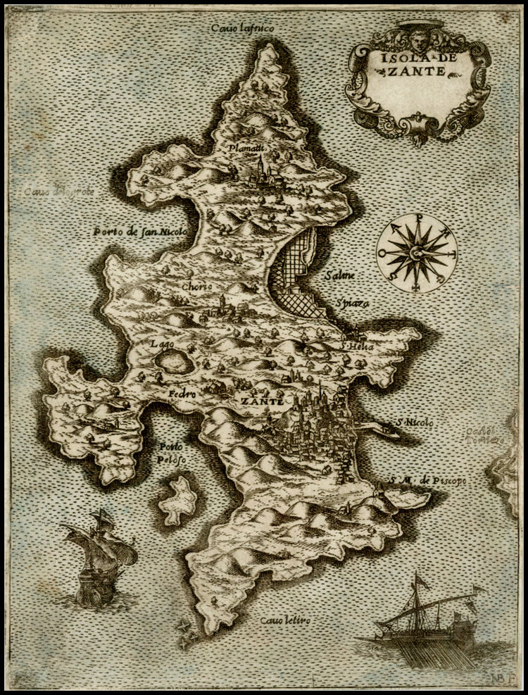 Old map of Zakynthos